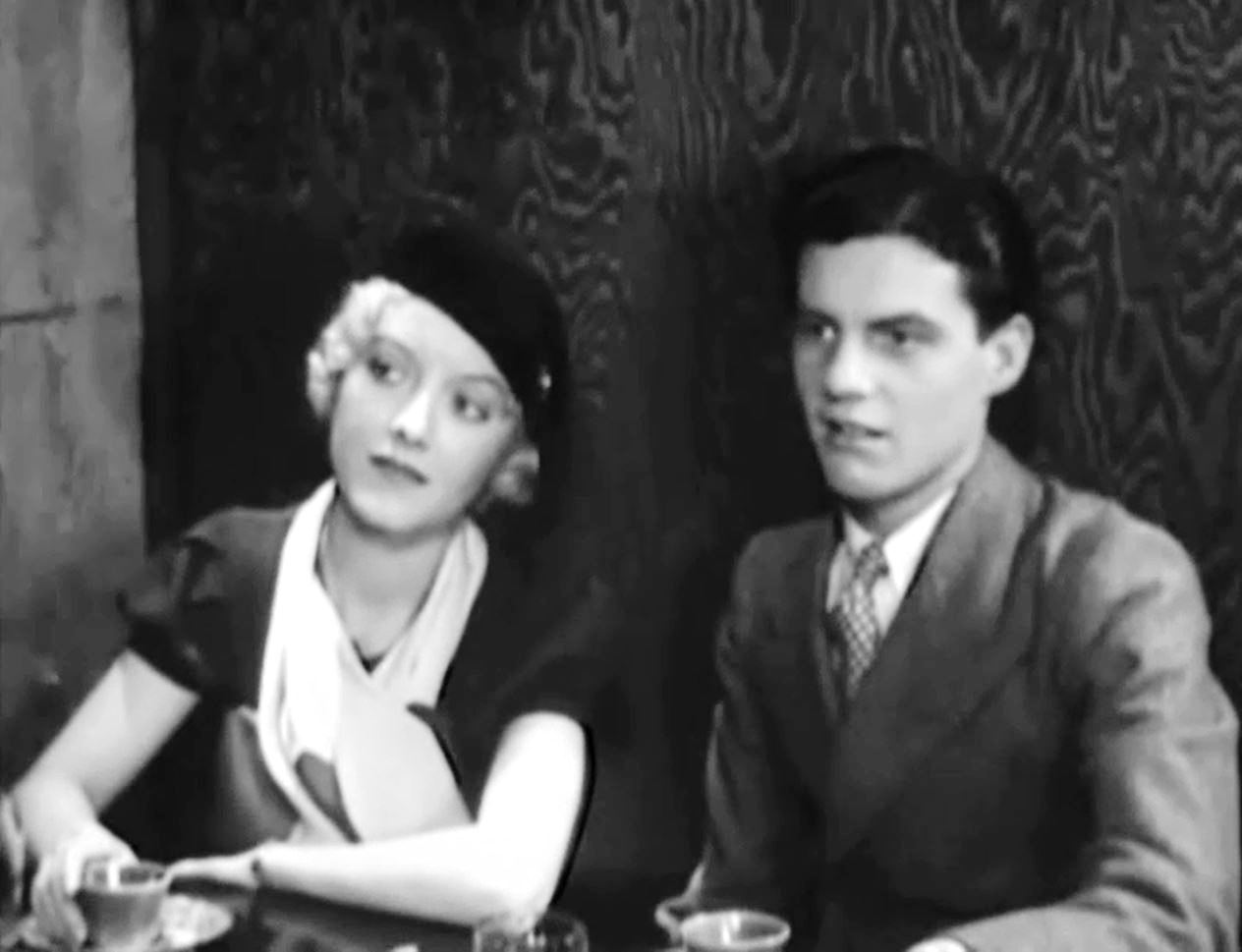 Low resolution screenshot of Nell O'Day as Eve Monroe and Robert Quirk as Ed from the American public domain exploitation film The Road to Ruin (1934).